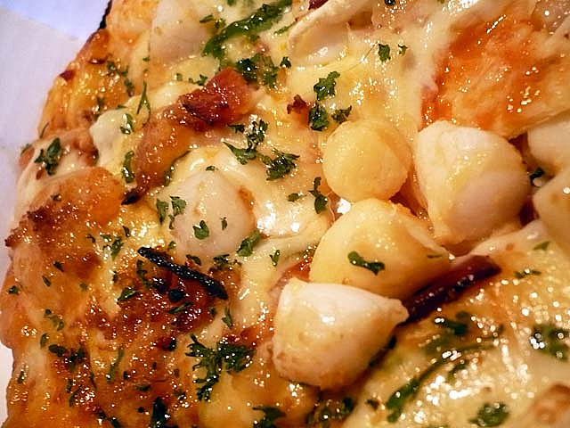 The Seafood pizza has tomato sauce, extra cheese, scallops, shrimp, calamari, apple wood smoked bacon, parmesan cheese, garlic, onion, green pepper, and parsley. All kinds of flavors on this one but they are in perfect harmony!!